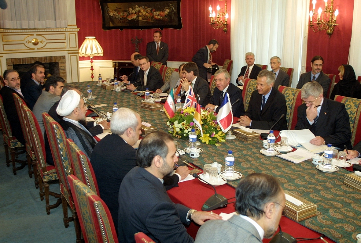 Iran-EU3's first meeting, Tehran, Iran, 21 October 2003. EU-3 ministers: Jack Straw (UK), Dominique de Villepin (France), Joschka Fischer (Germany). Iran's top negotiator: Hassan Rouhani